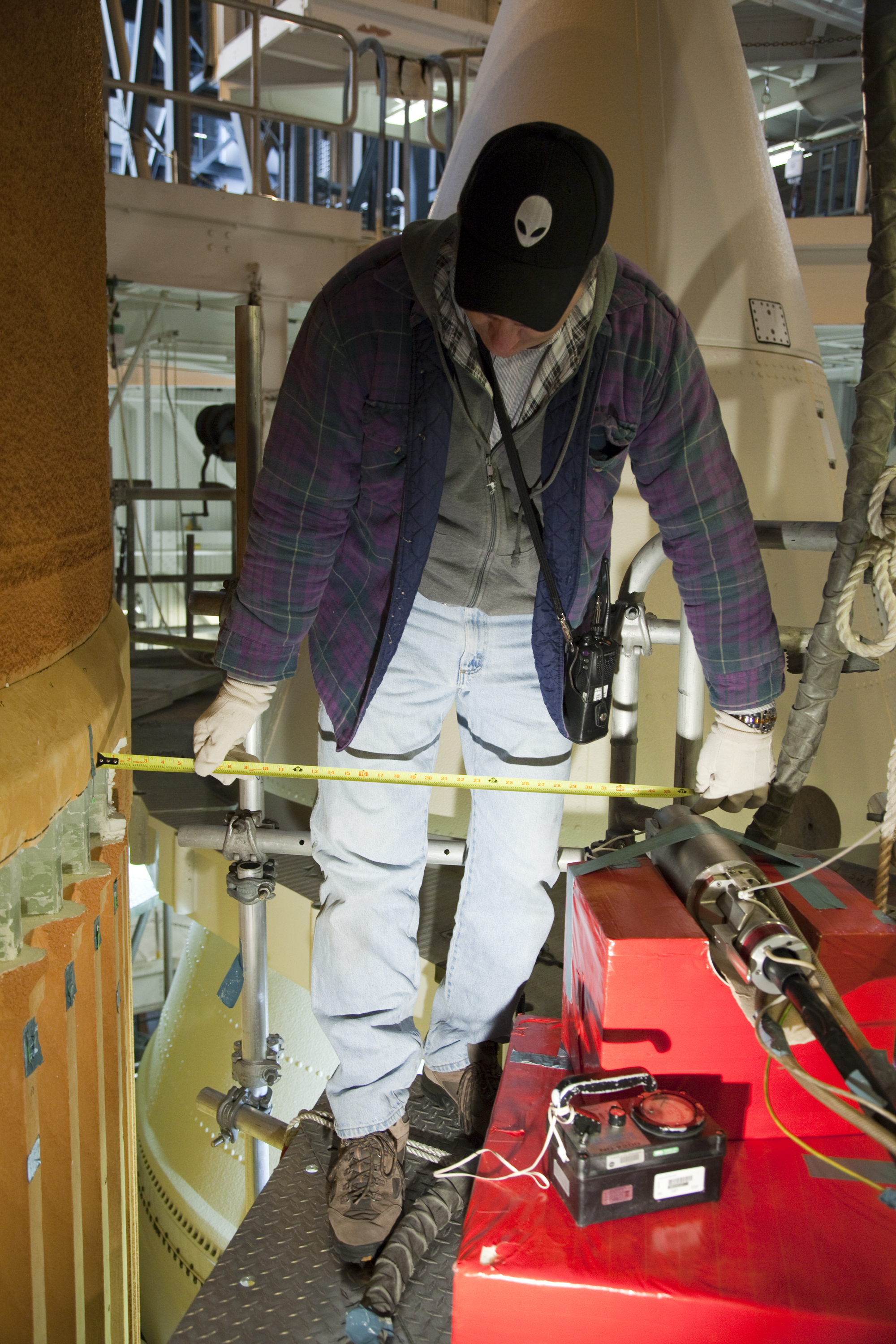 Technician is getting ready to take a computed radiography (CR) image scan of the tank. The red machine in the foreground is the CR device. A technician measures the distance between space shuttle Discovery's external fuel tank and a computed radiography scanning device. The shuttle stack, consisting of the shuttle, external tank and solid rocket boosters, was moved from Launch Pad 39A to the Vehicle Assembly Building at NASA's Kennedy Space Center in Florida so technicians could examine 21-foot-long support beams, called stringers, on the outside of the tank's intertank and re-apply foam insulation. Discovery's next launch opportunity to the International Space Station on the STS-133 mission is no earlier than Feb. 3, 2011. For more information on STS-133, visit